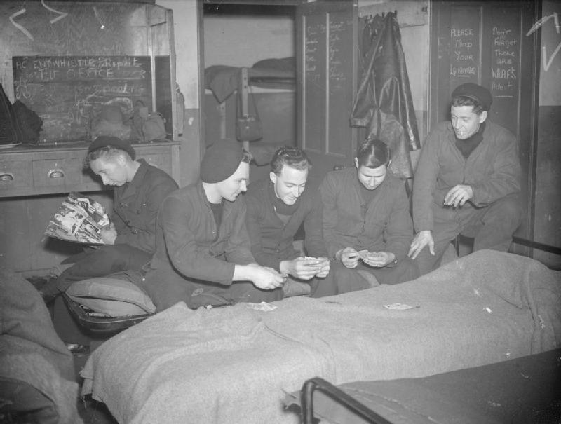 Royal Air Force 1939-1945- Fighter Command The only Australian night-fighter squadron in Fighter Command, No 456 was formed in June 1941 at Valley in North Wales. This photograph shows armourers relaxing in their quarters in December of that year. They are, from left: Doug Andrews, Archie Clarke, Fred Howe, George Bryan and Herb Eacott. The message on the door reads: 'Please mind your language. Don't forget there are WAAFs about!'.